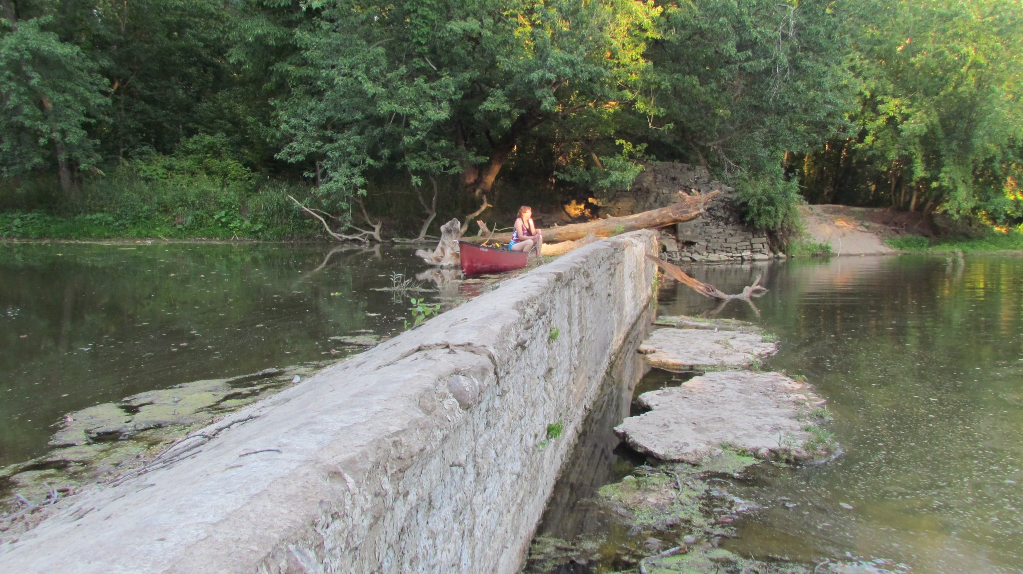 The crib dam, formerly located south of the iron bridge on the Eel River in Liberty Mills, Indiana.